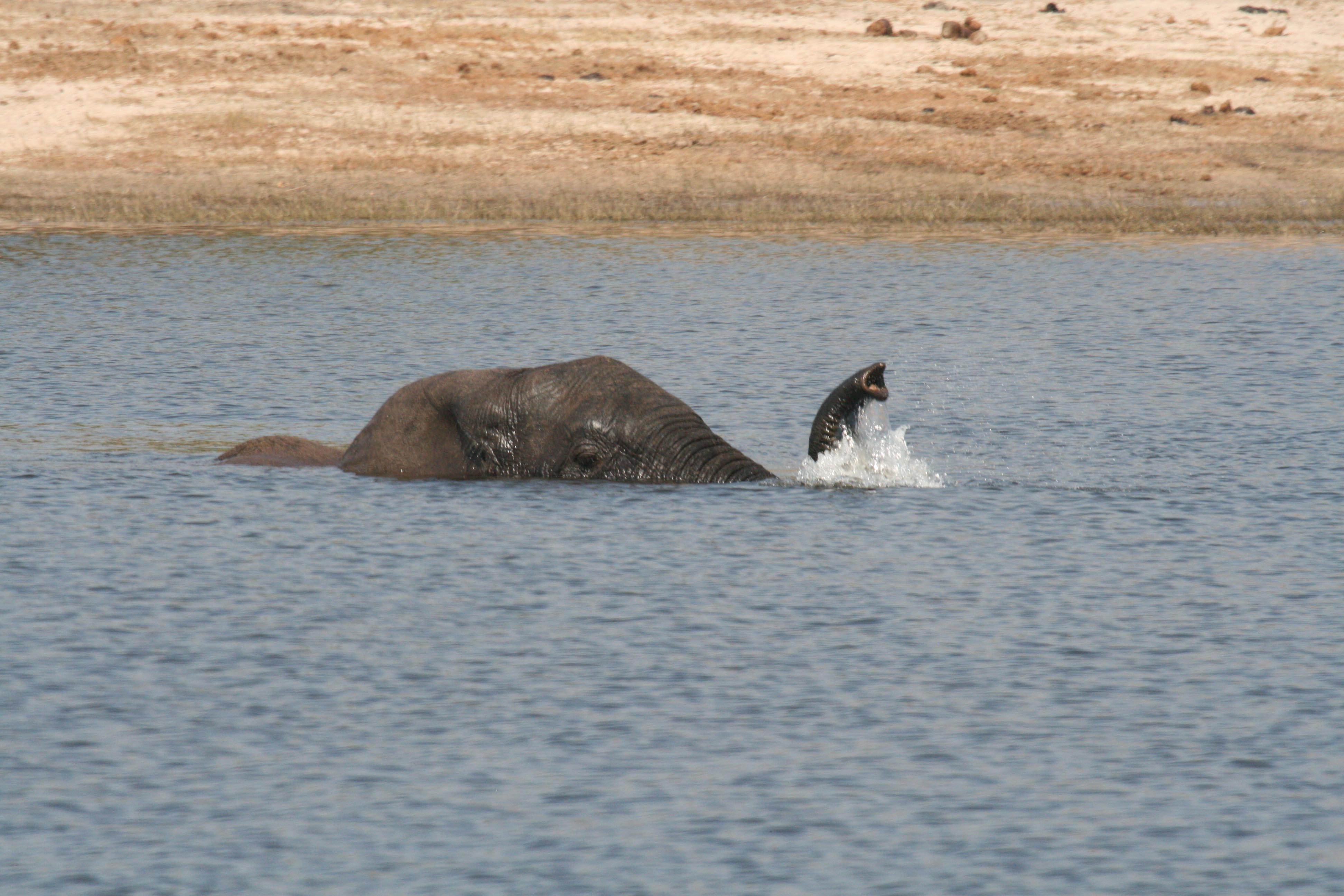 Elephant snorkelling chobi, Botswana